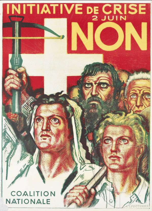 Swiss advertisement for votation regarding economical crisis of 1935